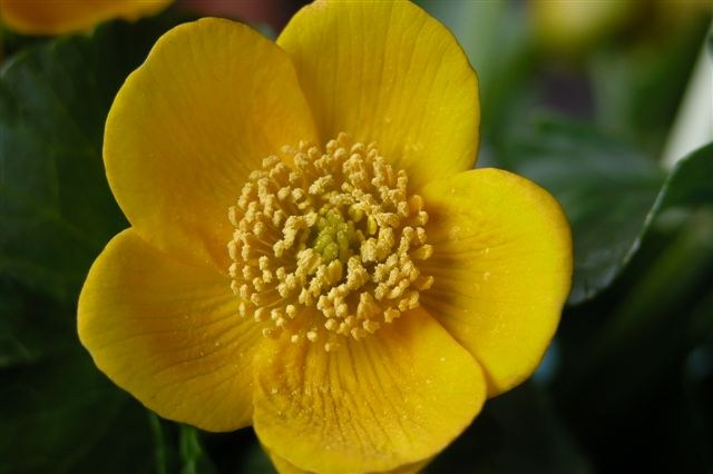 the national flower of the Faroe Islands